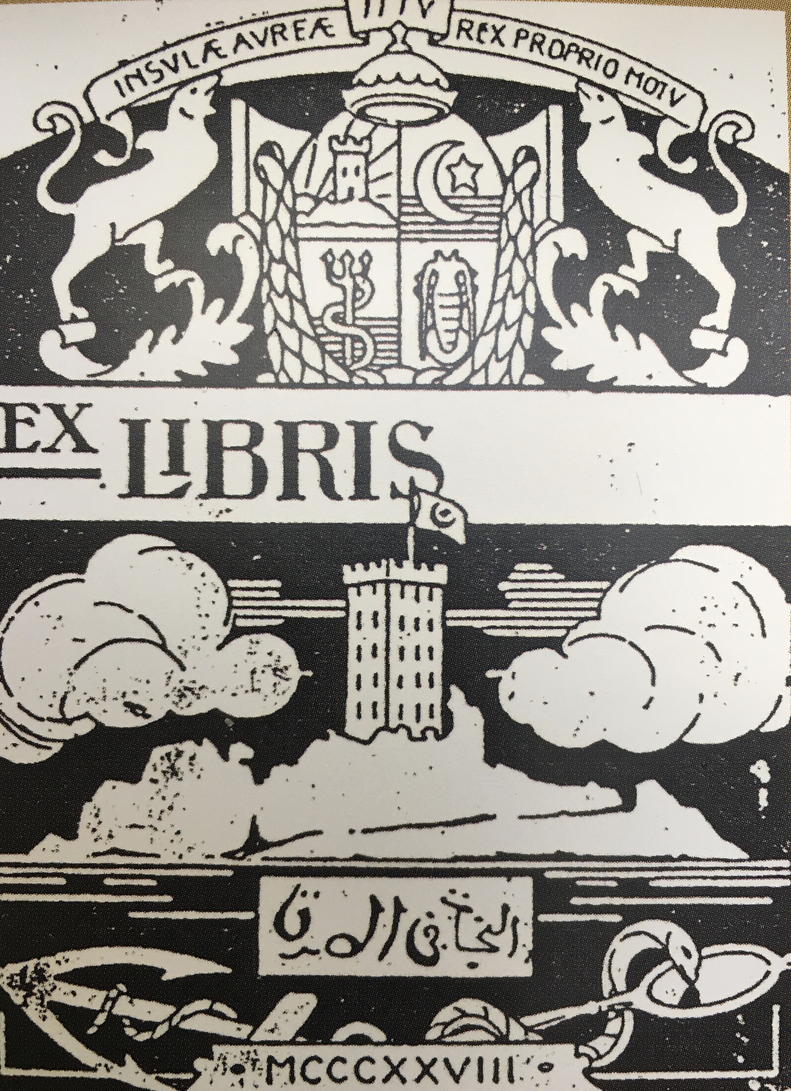 Bookplate with the heraldry of Auguste 1er king of île d’Or.